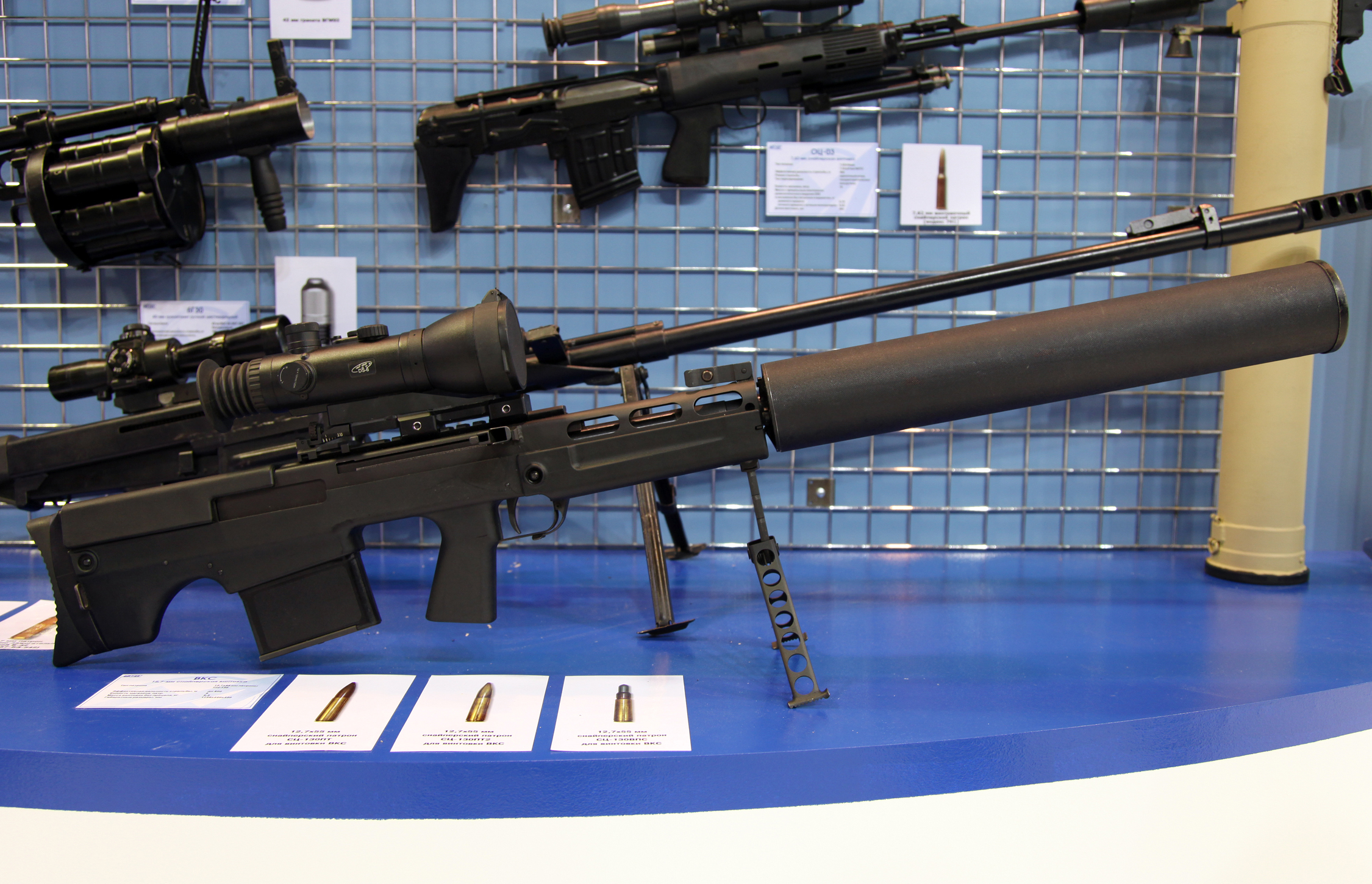 12.7mm sniper rifle VKS - Engineering technologies international forum-2012